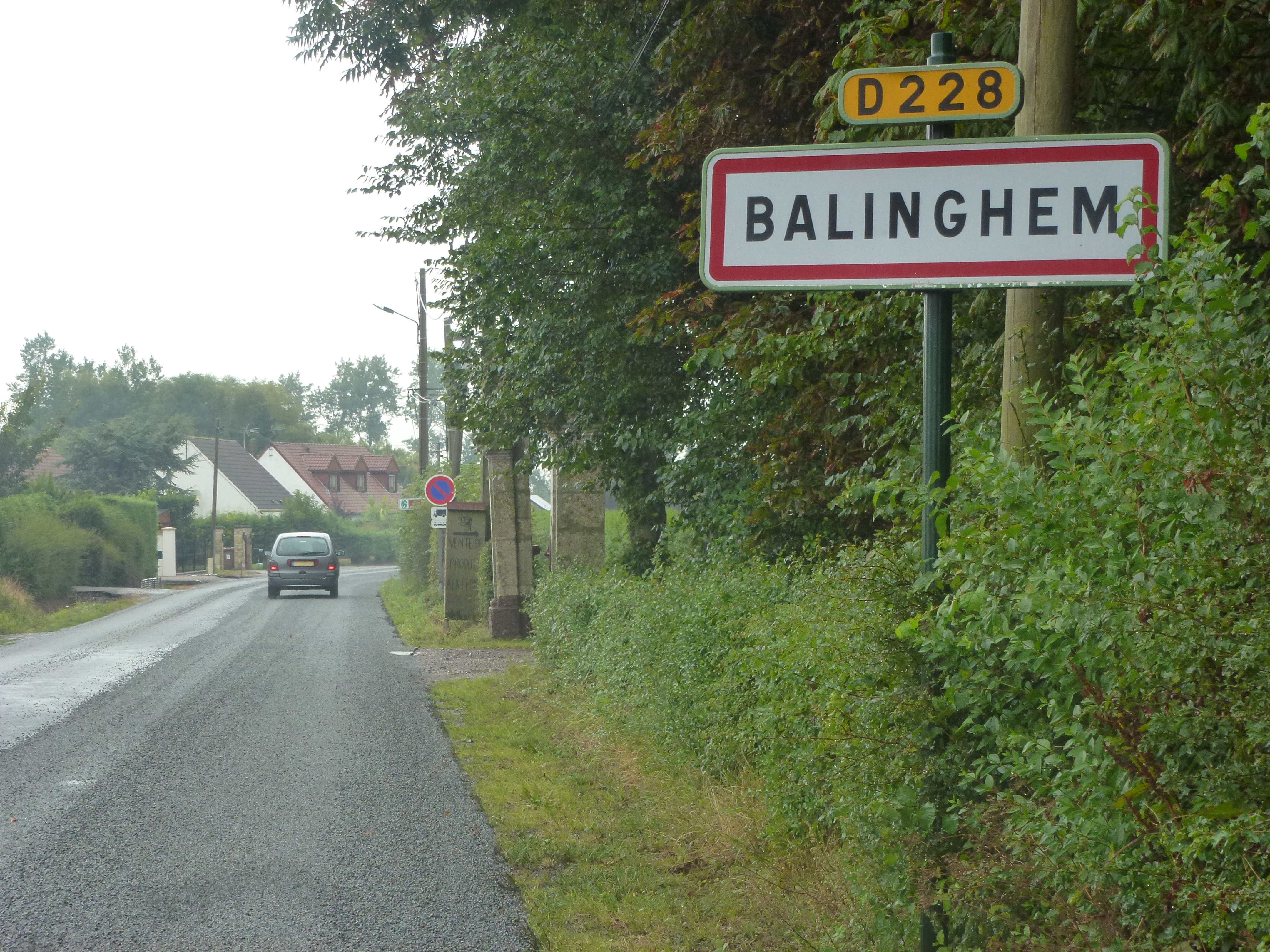 Balinghem (Pas-de-Calais) city limit sign